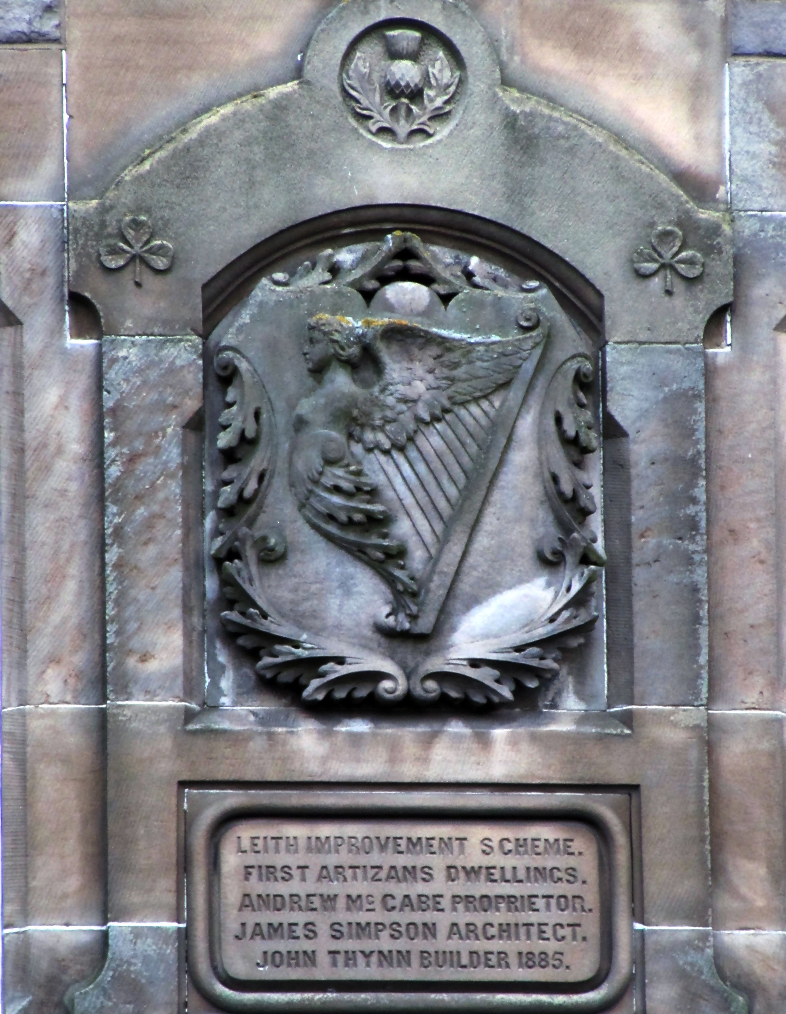 Architectural detail of Henderson Street, Leith, Edinburgh, Scotland -- Irish shield with plaque below and Scottish thistle above.